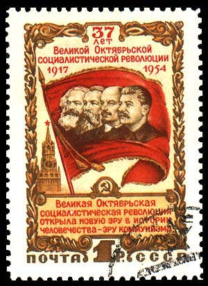 Stamp of the USSR. 37th anniversary of the Great October Revolution. «Great October Revolution has opened a new era in mankind history - an era of communism» (Marx, Engels, Lenin, and Stalin), 1954, CPA #1793.